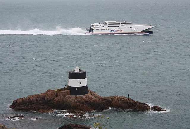 Noirmont Tower. A Martello Tower completed in 1814 for protecting St Aubin's Bay during the Napoleonic Wars. It had one 18-pounder cannon on the top and another on the base platform. Photograph taken from the roof of the German World War II fortifications. The Condor Ferries catamaran is heading west around the island on its way to Guernsey. Nrf: La Tou d'Vînde, Saint Brélade, Jèrri